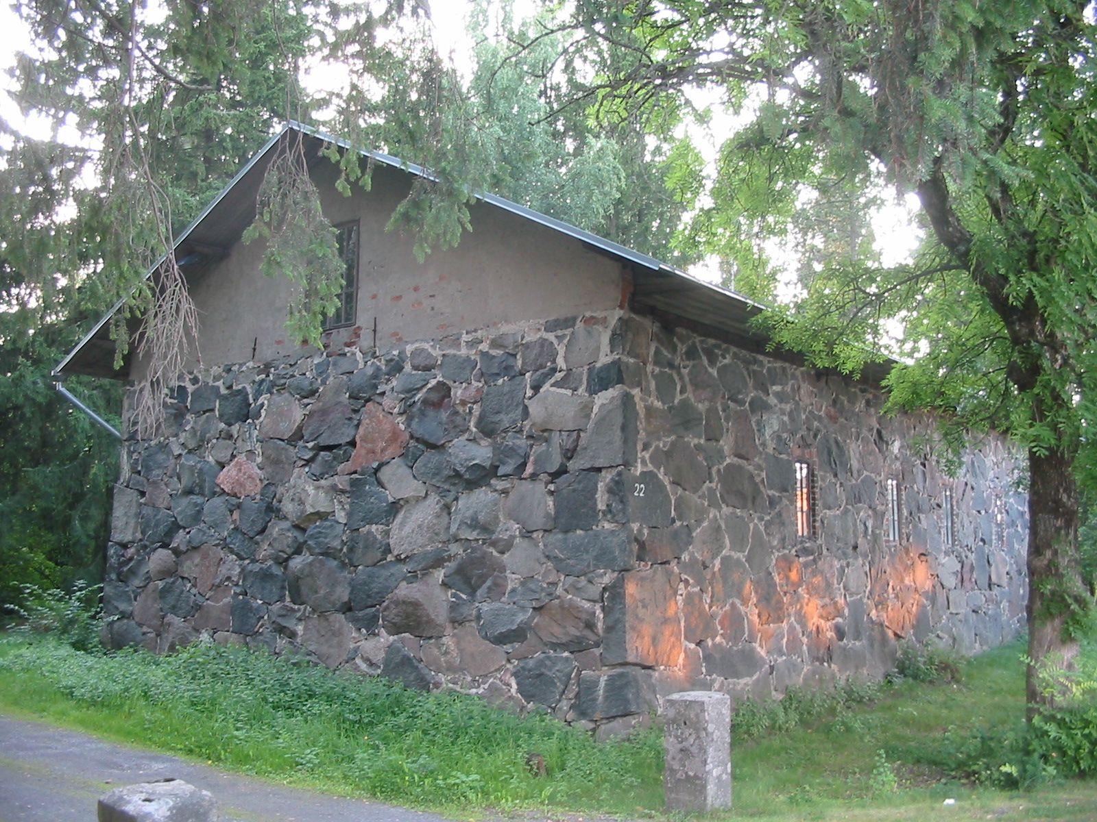 Kiiruun stone granary of Joensuu's Road